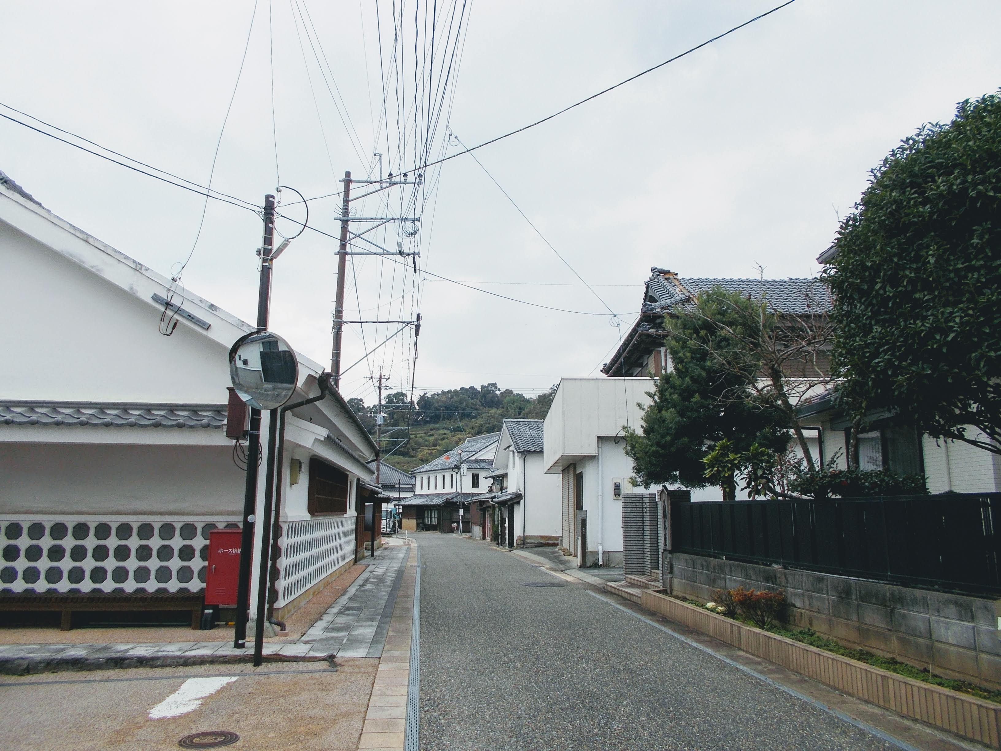 A street of Matsuai, Uki, Kumamoto, Japan